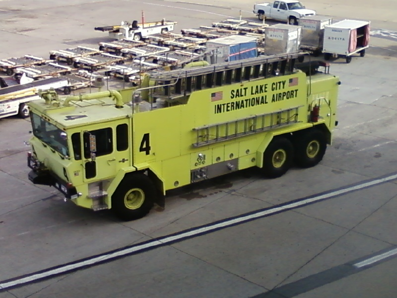 Number 4 fire truck at SLC Int'l Airport